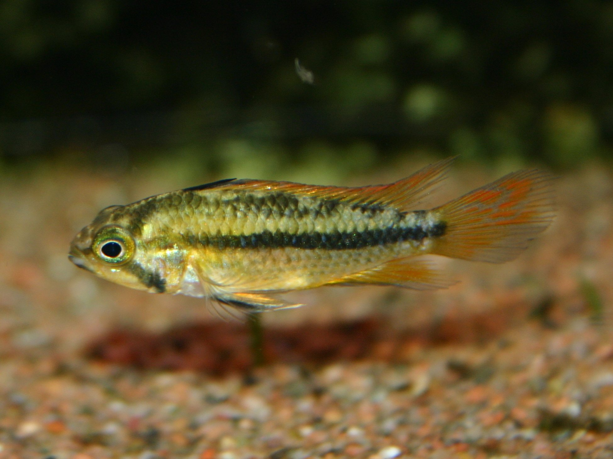 Kakaduaciklid (Apistogramma Cacatuoides) ♀ Foto:Jimmy Engelbrecht